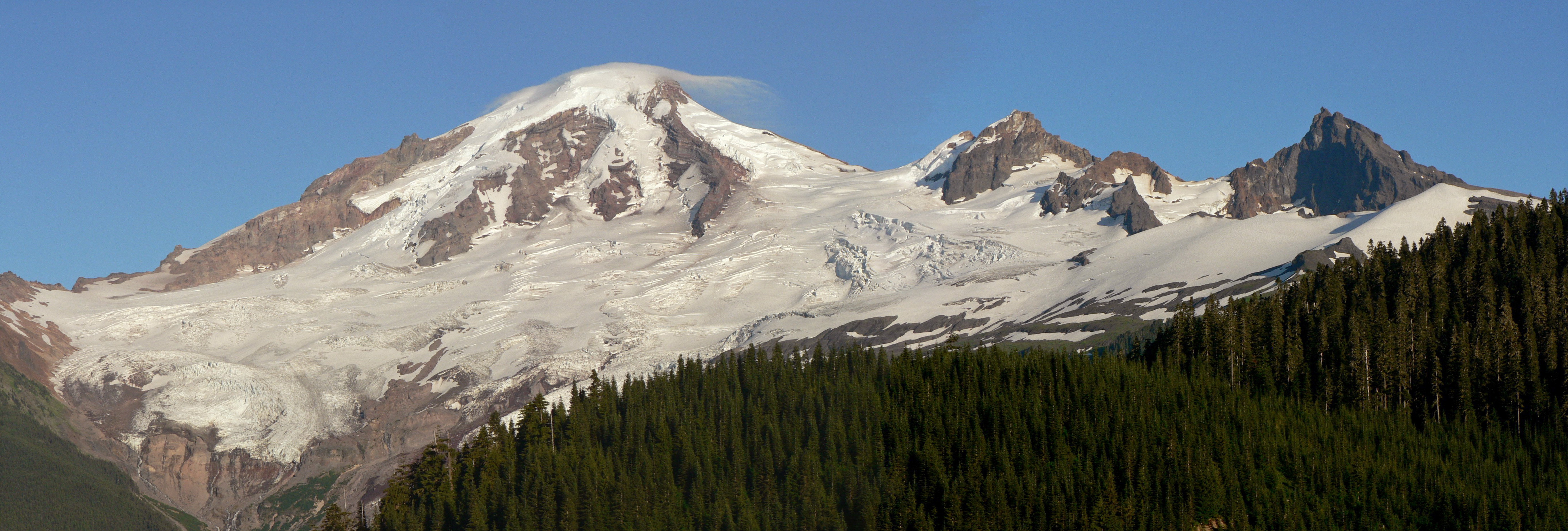 Mount Baker; Grant Peak (10,781 feet, 3286 meters, left center with cloud); Colfax Peak (9440 ft, 2877 m, right center); Lincoln Peak (9080 ft, 2768 m, right)